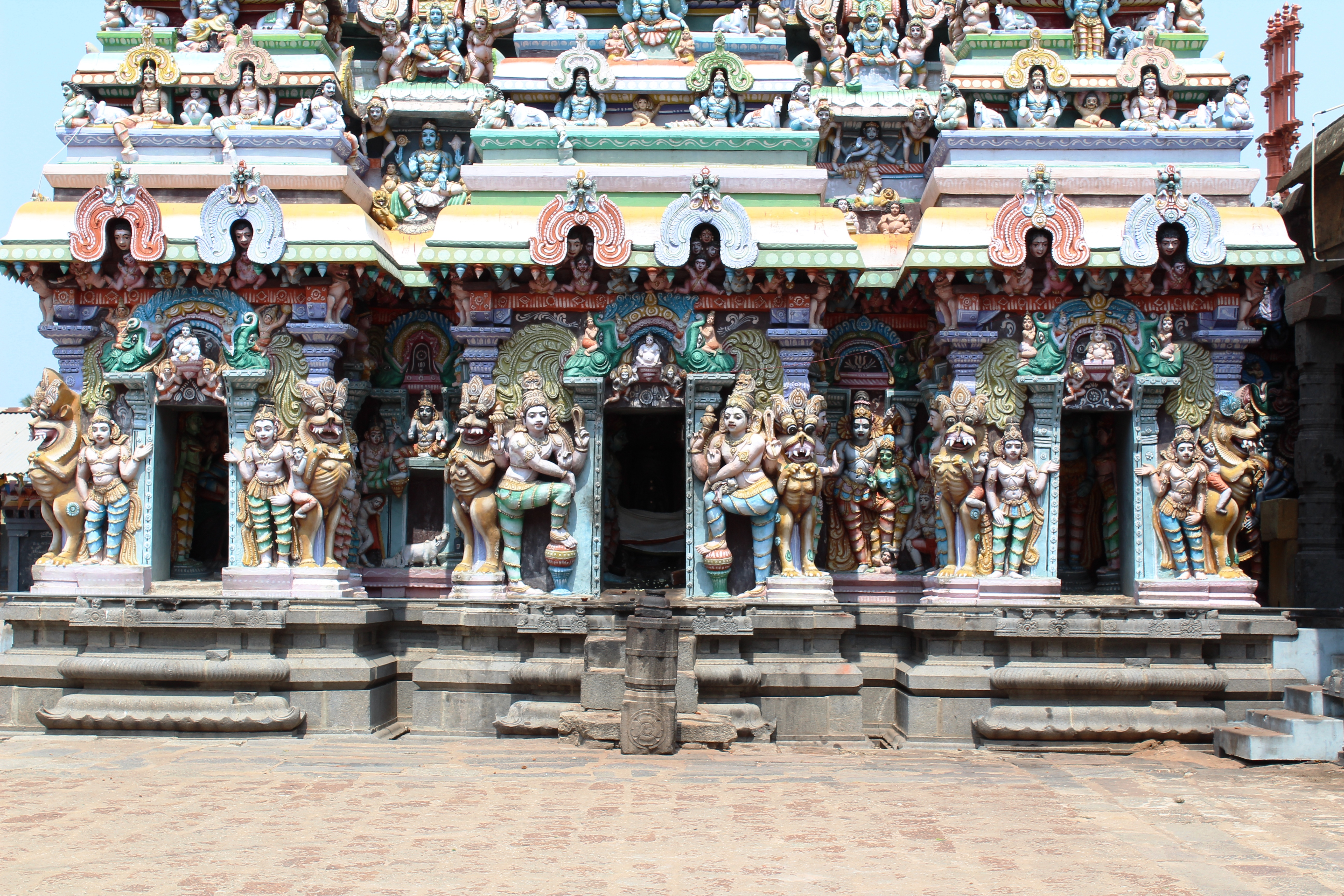 Thiruvathigai Veerateeswarar temple